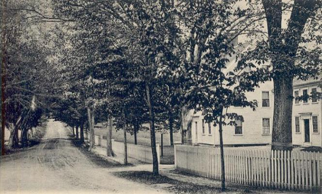 Highland Street, Marshfield Hills, MA; from a c. 1905 postcard.